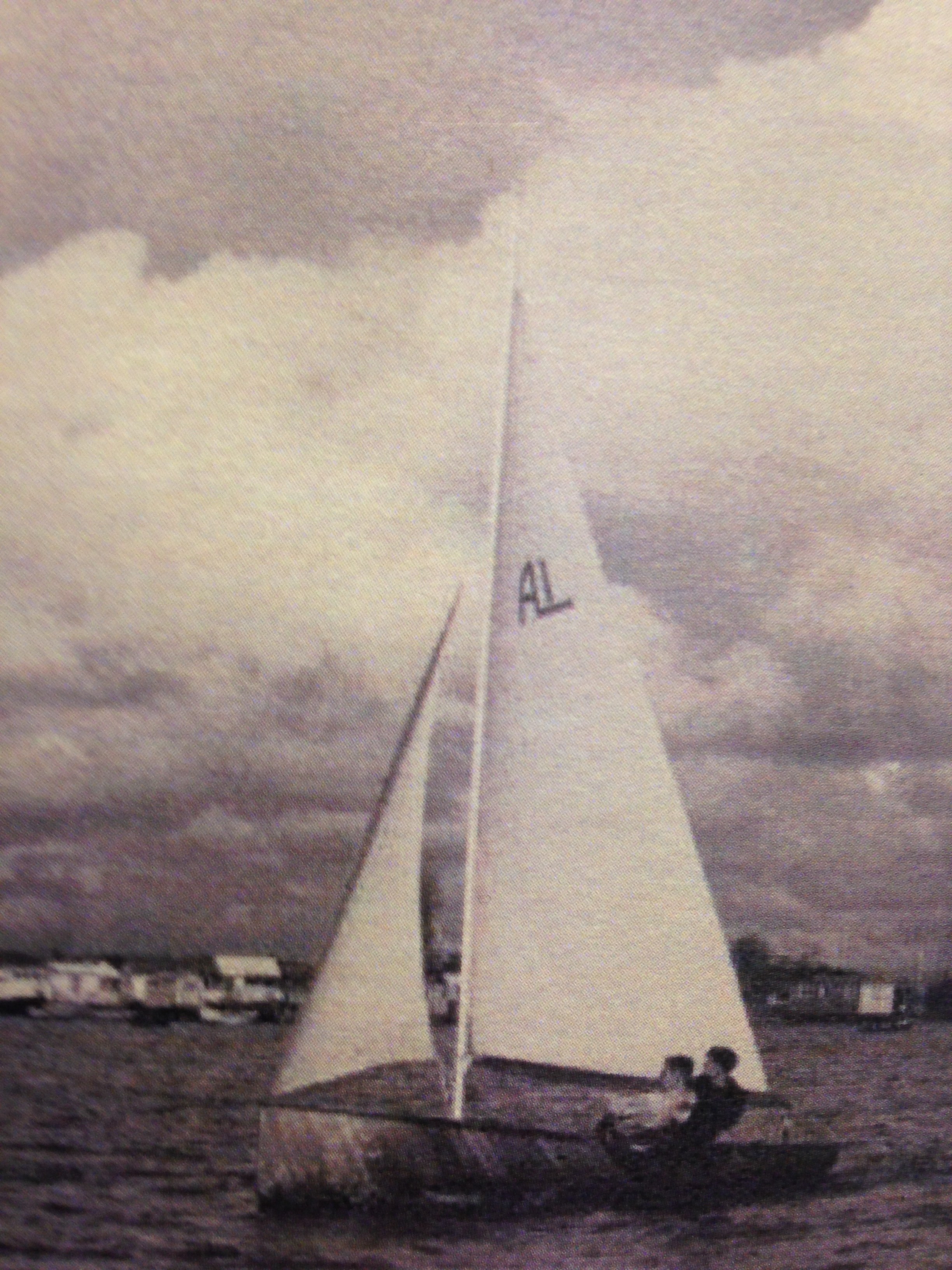 Dave and Clive on Albacore 1